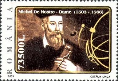 Stamps of Romania, 2003